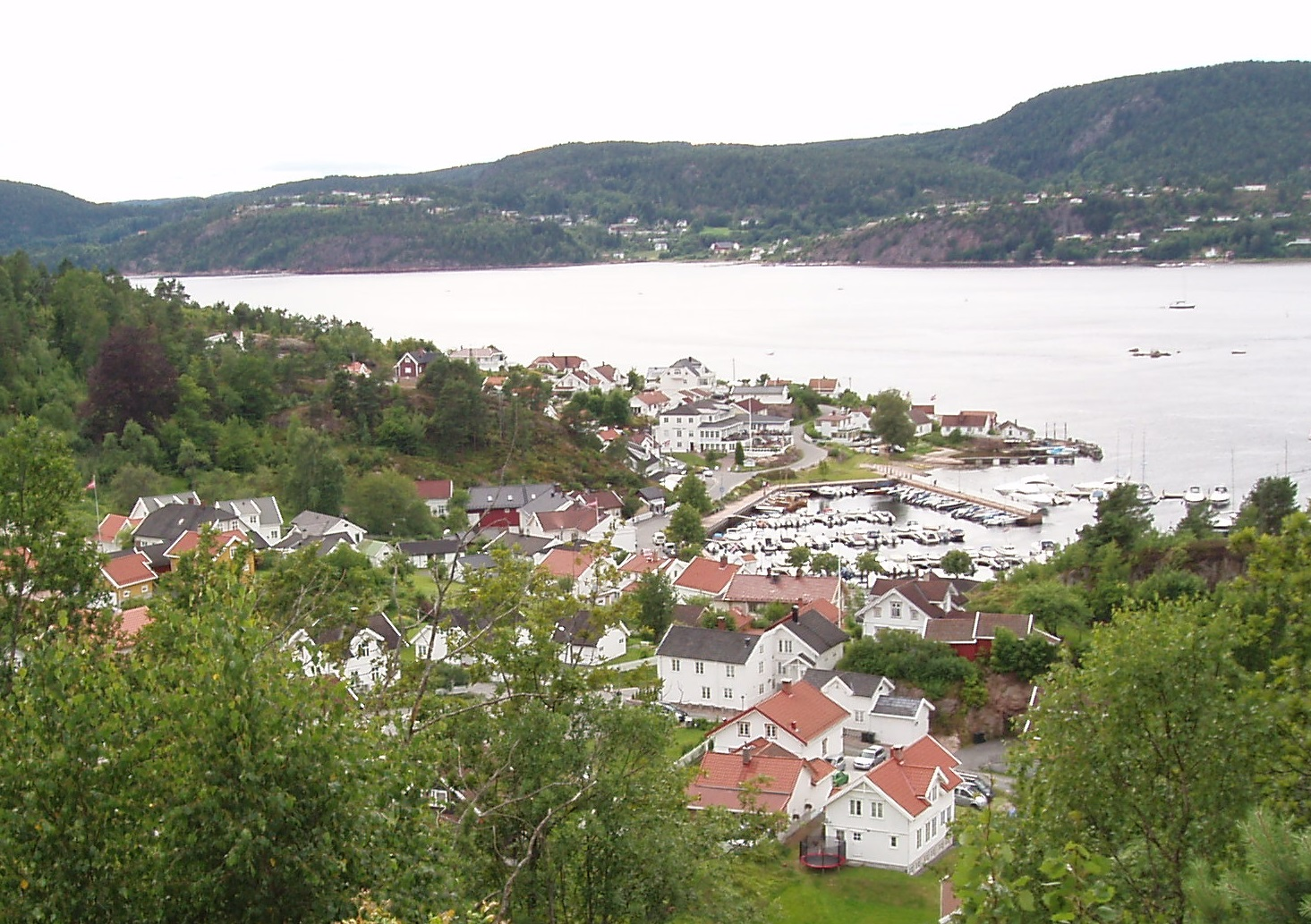 The village of Holmsbu in Hurum, South Norway